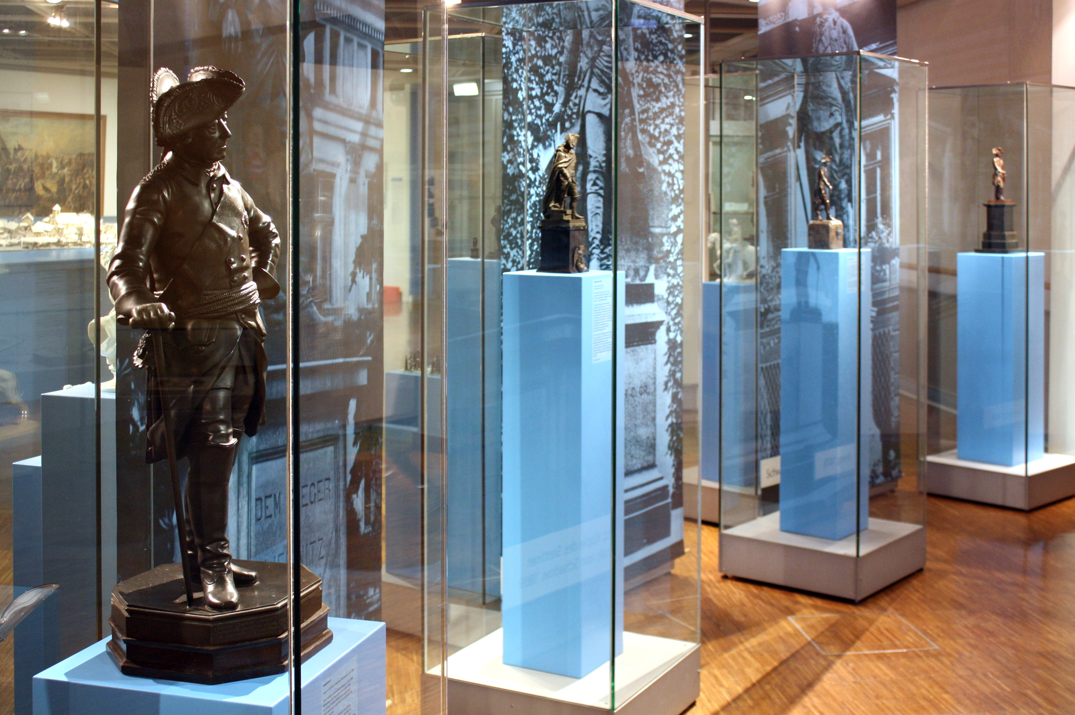 Exhibition of the Upper Silesian State Museum about Friedrich II.